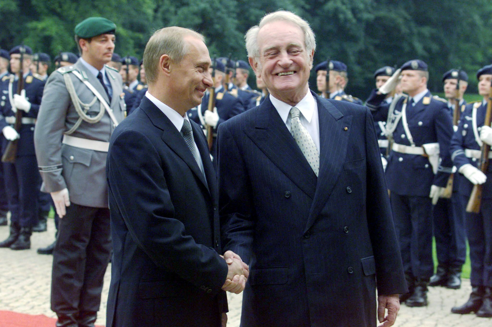 BERLIN. German President Johannes Rau greets Russian President Vladimir Putin in an official ceremony.